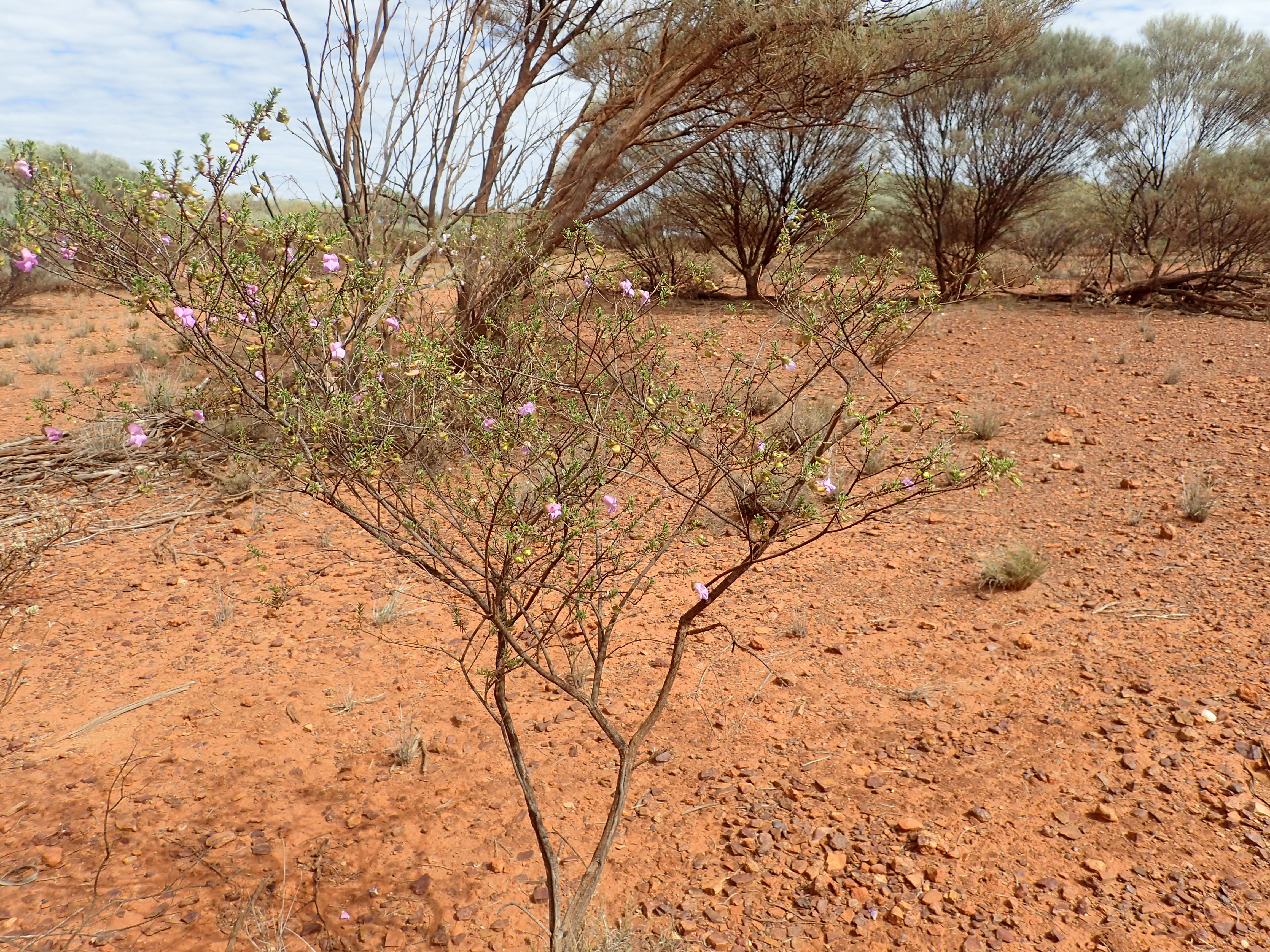 Eremophila punctata growing 69km east of Wiluna